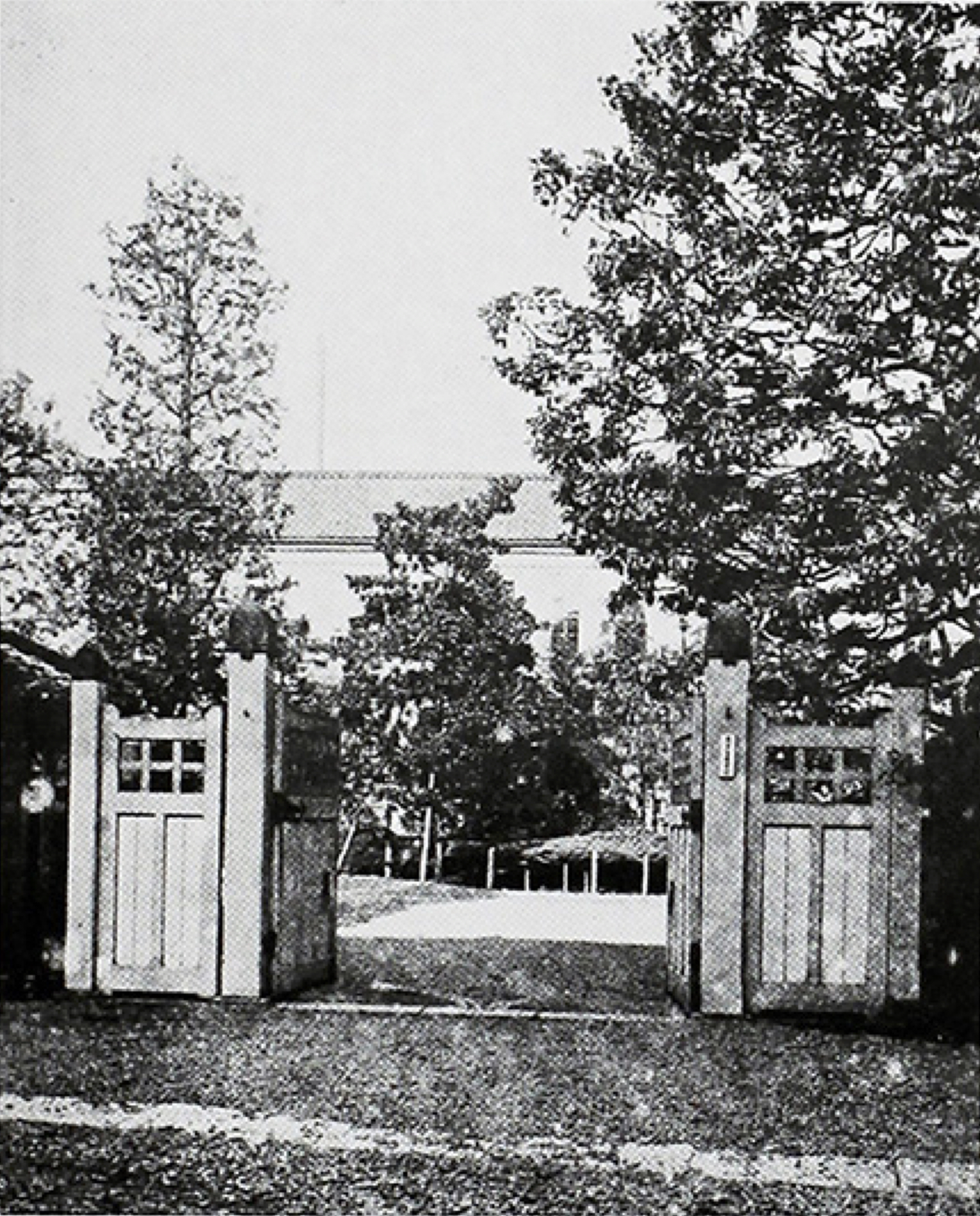 Tokyo Music School (1890)